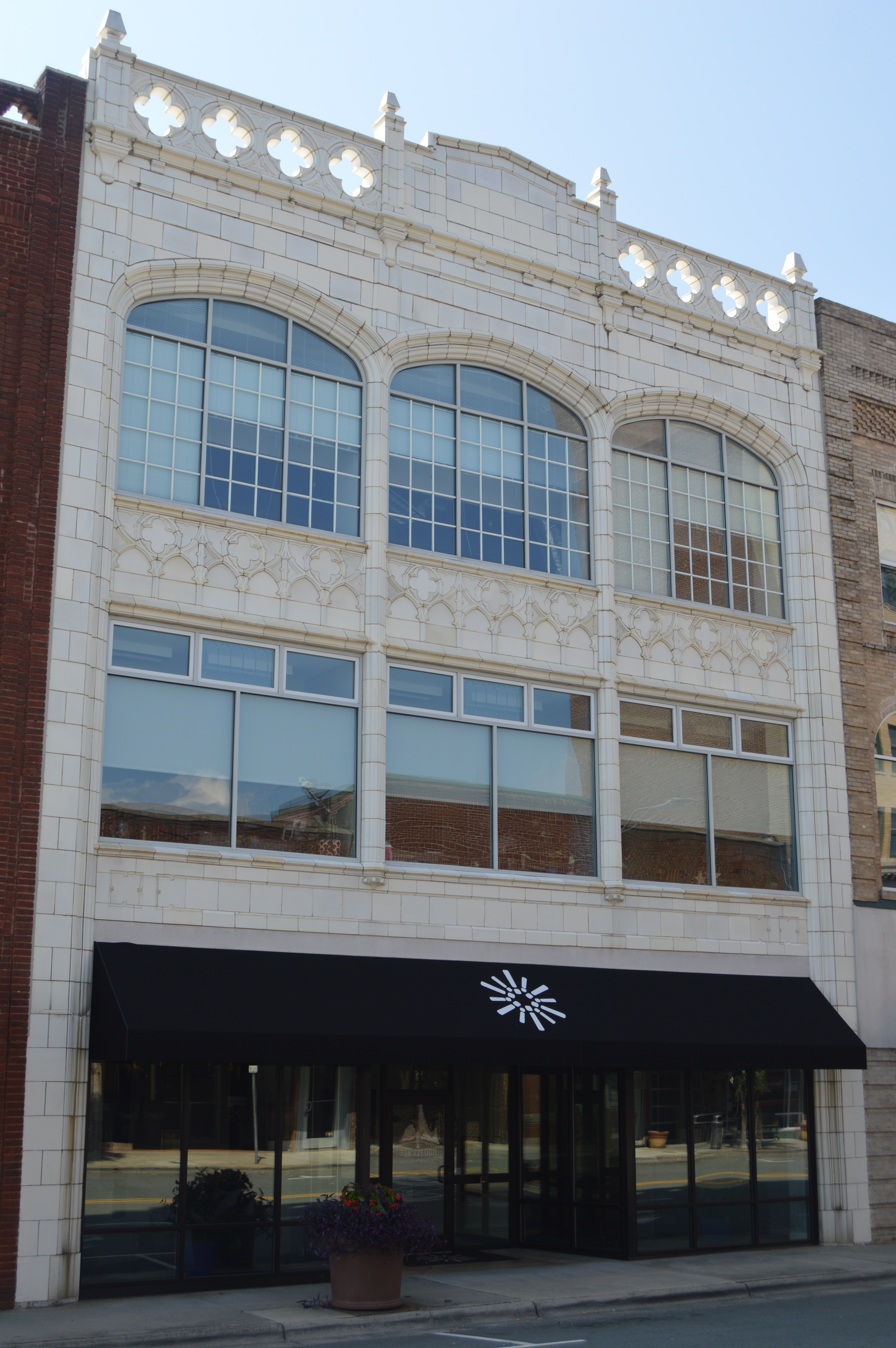 Front of the Efird Building, located at 133 E. Davis Street in Burlington, North Carolina, United States. Built in 1919, it is listed on the National Register of Historic Places.